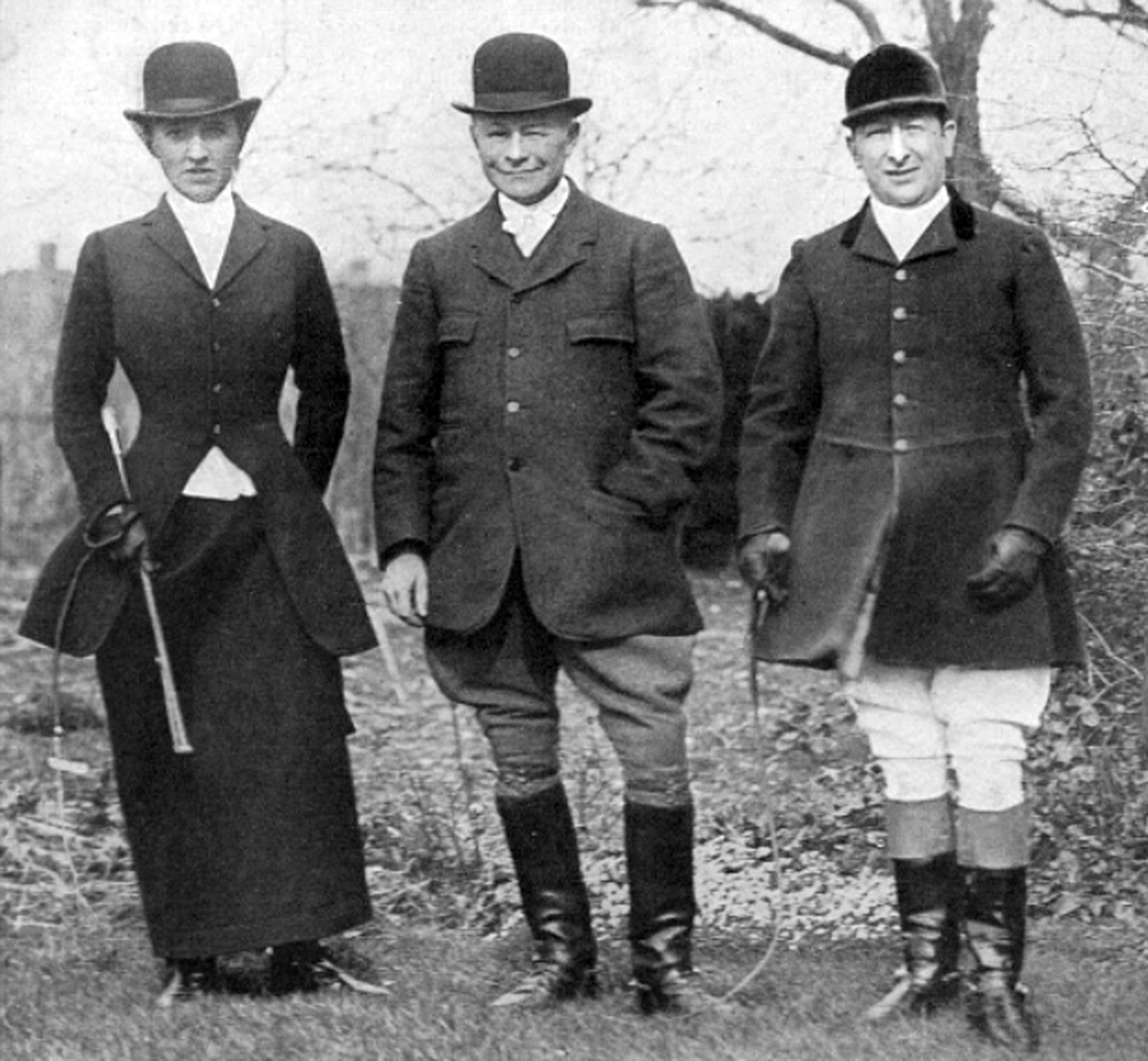 Lady Greenall and Sir Gilbert Greenall (right) of Walton Halll Warrington 1912